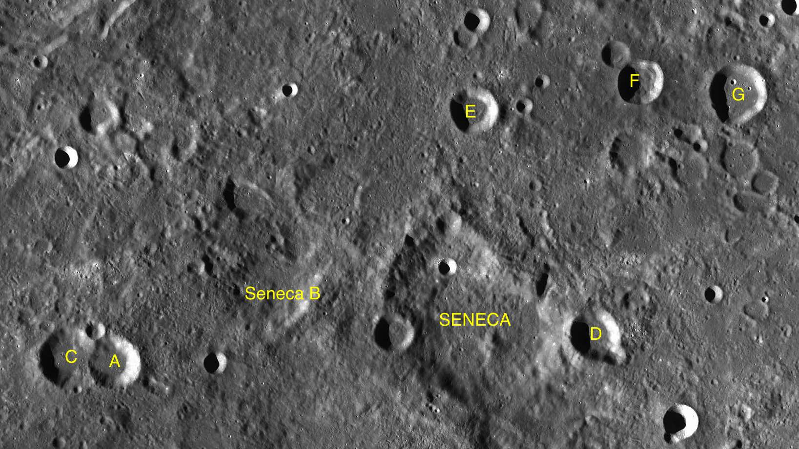 Part of the chart LAC-45 used for the presentation